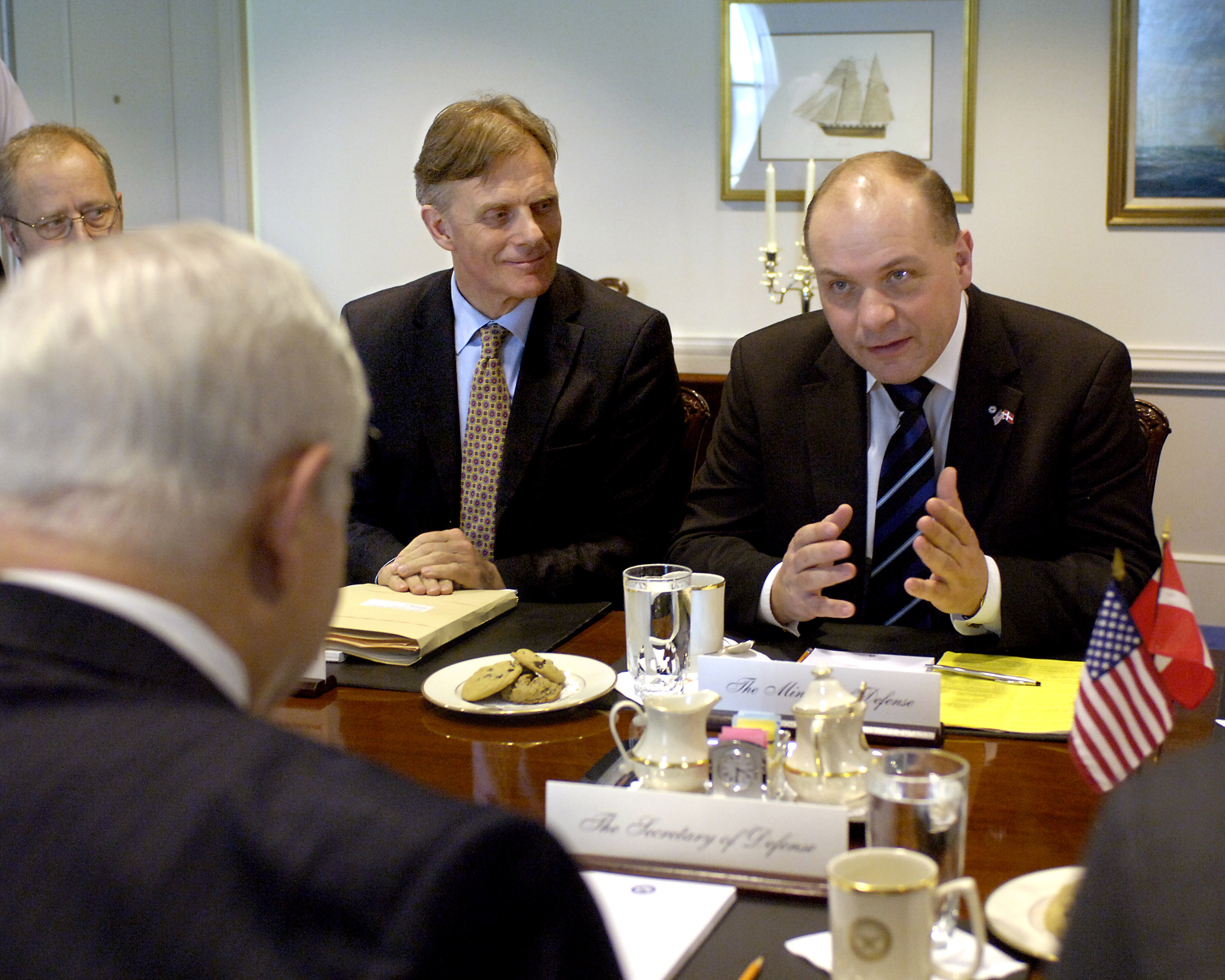 Danish Defense Minister Søren Gade (right) meets with U.S. Secretary of Defense Robert M. Gates (left). Accompanying Gade is Danish Ambassador to the U.S. Friis Arne Petersen (2nd from right).